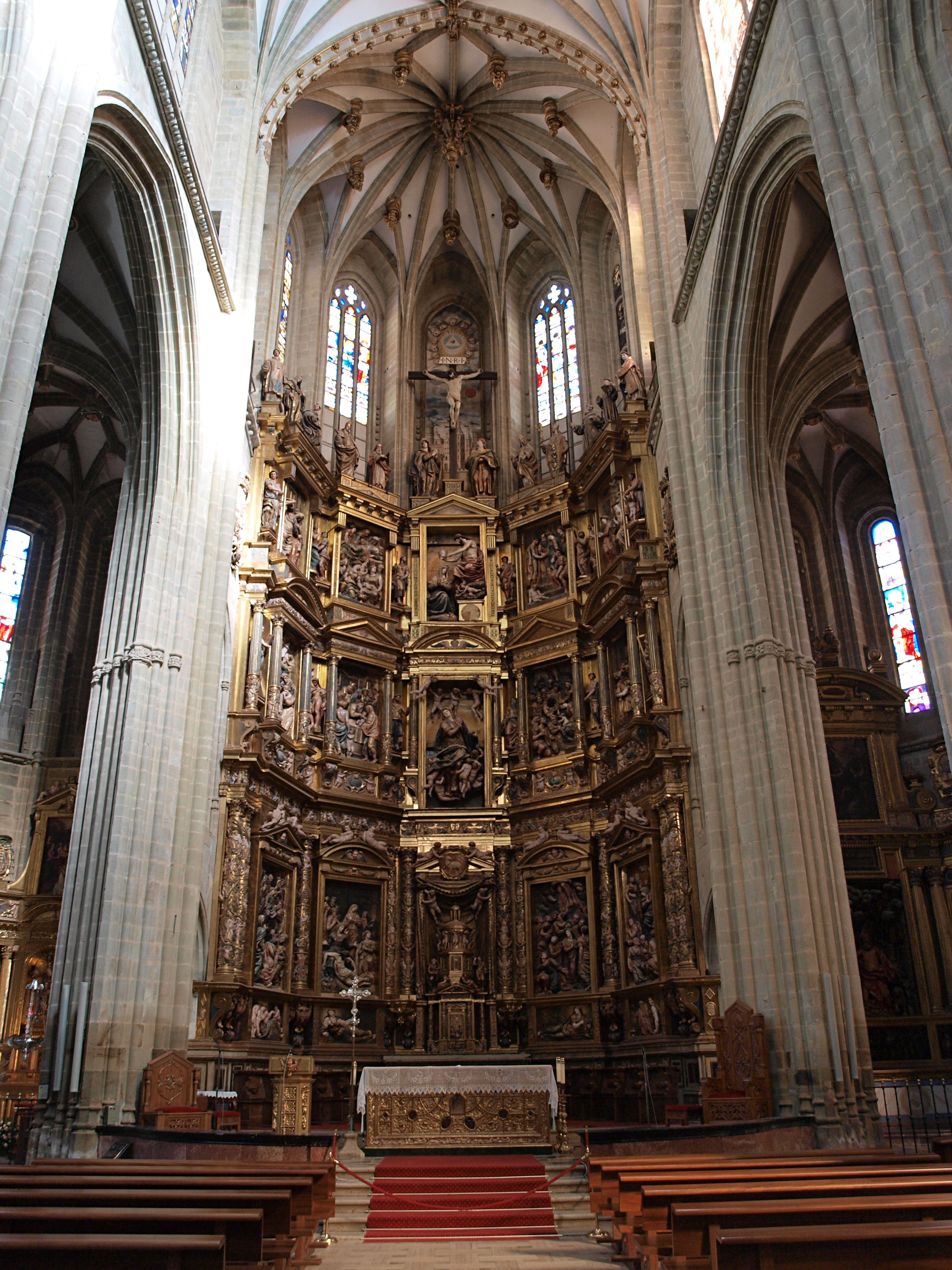 Astorga Cathedral, Astorga (Province of León, Spain).